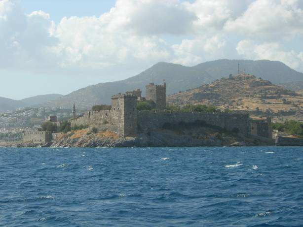 st.Peter's castle in Bodrum, Turkey; originally: Zamek św. Piotra w Bodrum, Turcja